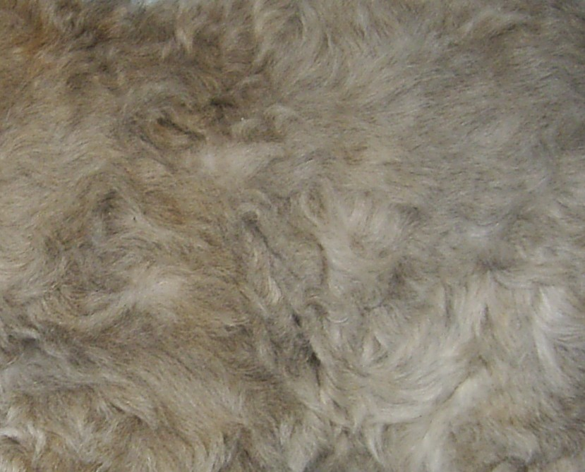 curly coat german rex kitten